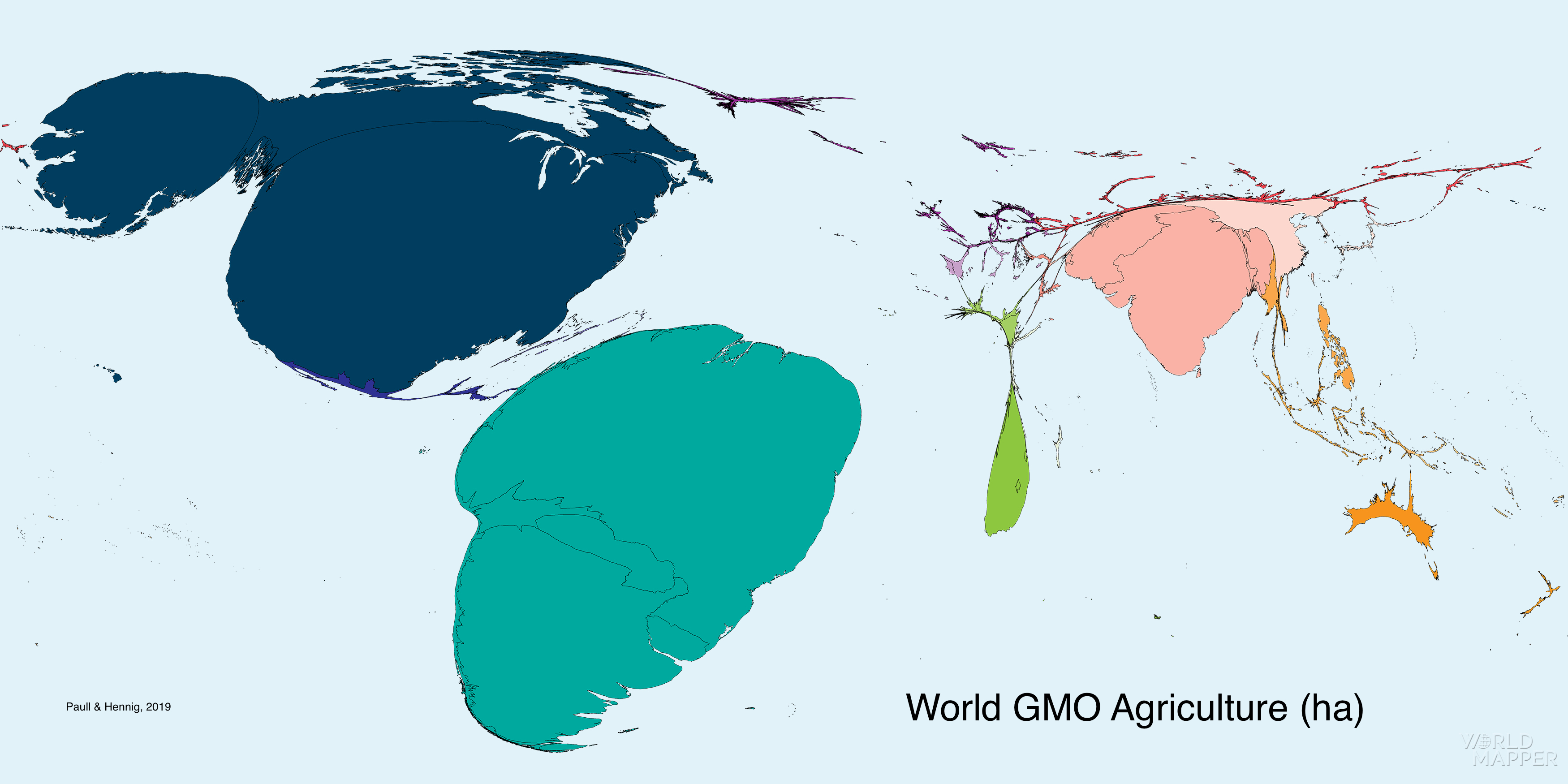 This world map is a cartogram (density equalising map) of the global data of GMO agriculture (hectares) (reported from 24 countries). North and South America account for 85% of the global GMO agriculture (based on hectares).